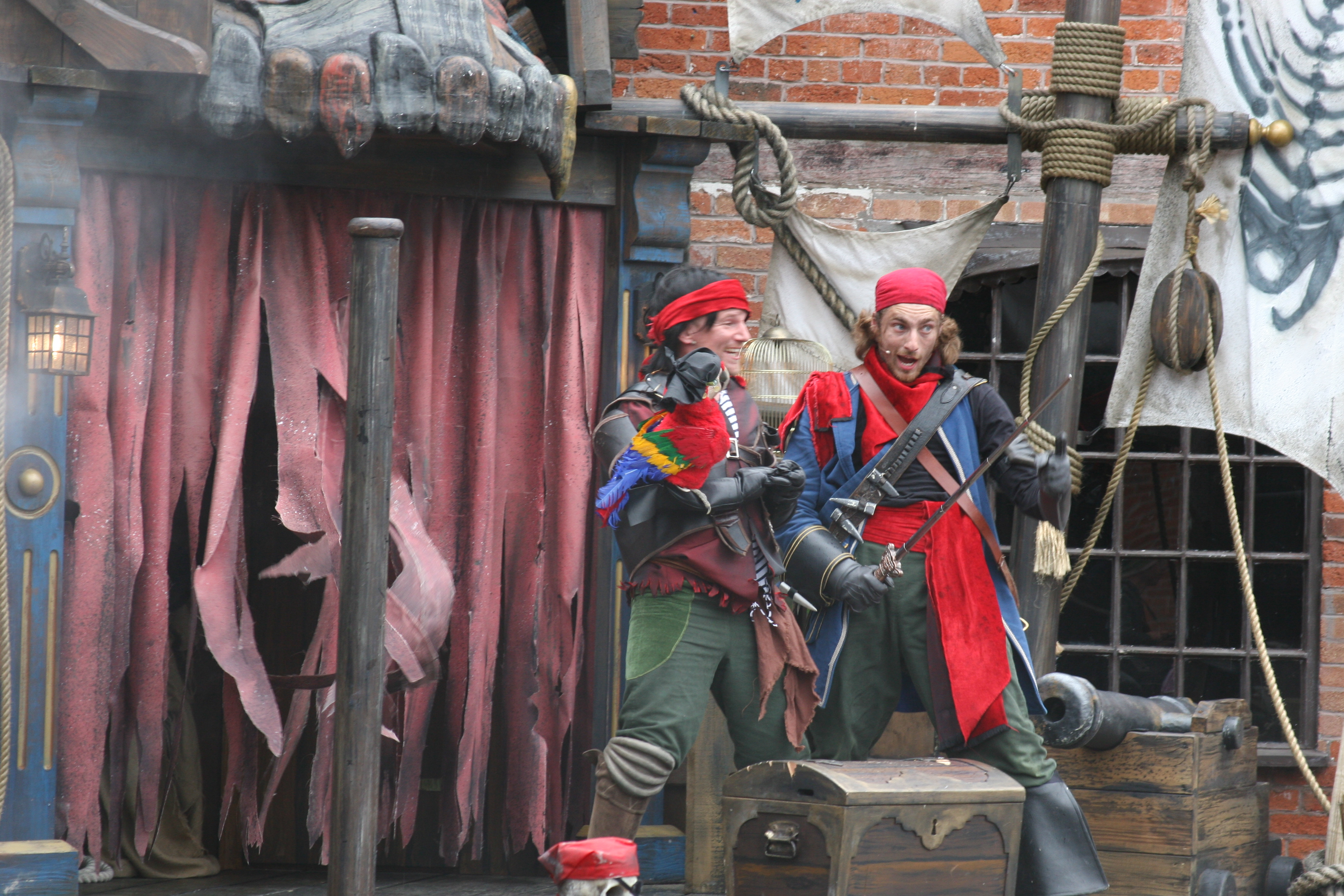 Alton Towers, UK.